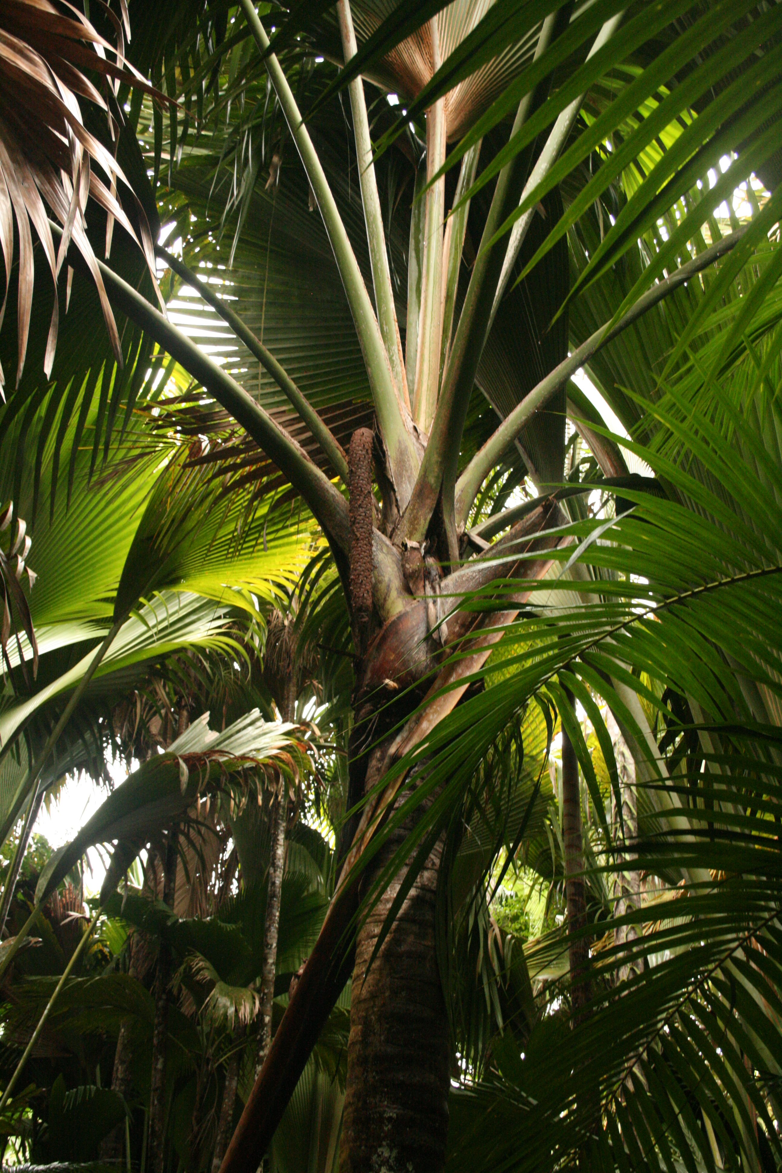 Male flower of a Lodoicea maldivica ("Coco de mer") plant on the Seychelles Islands, Mahe, Vallee de Mai